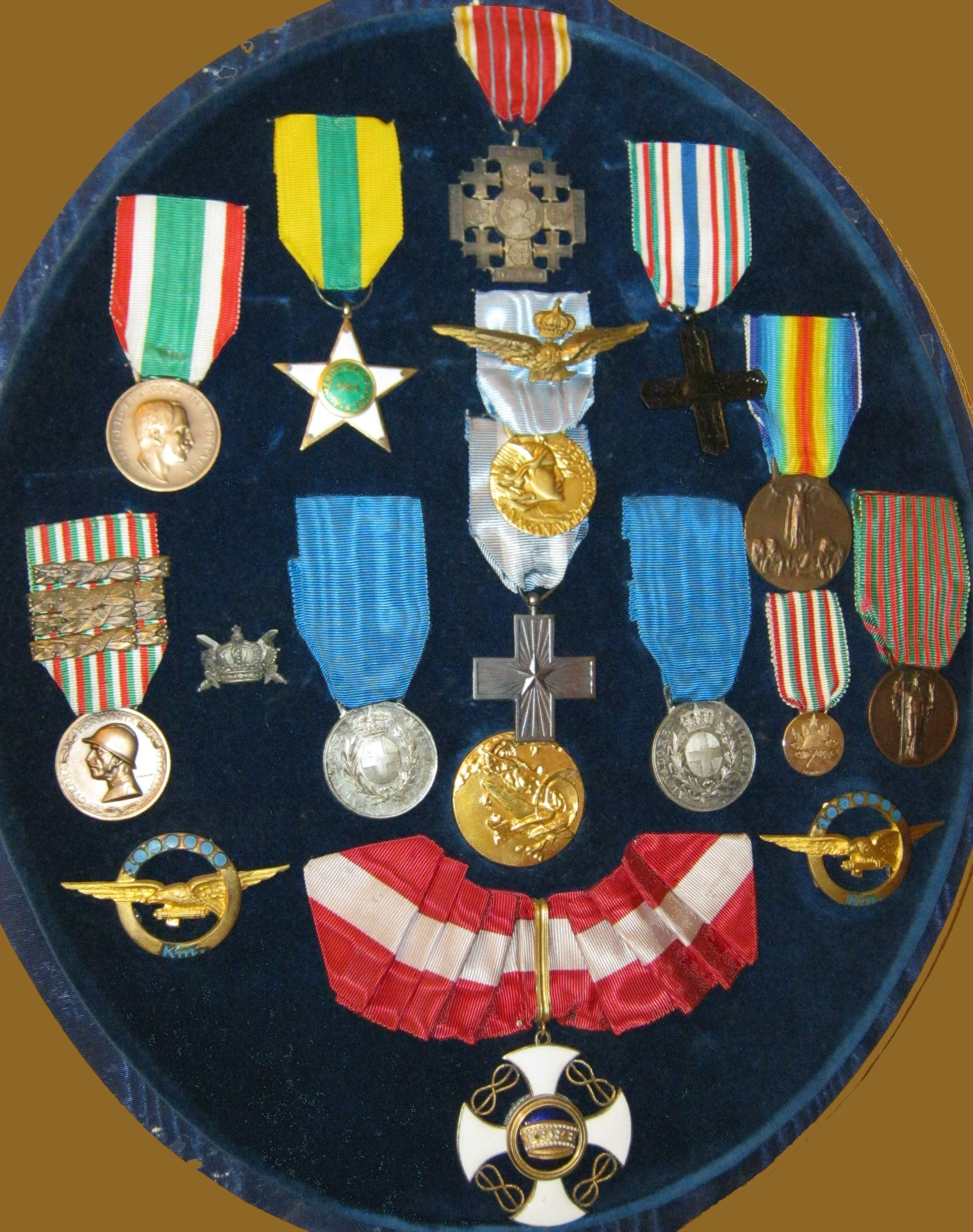 Leonida Schiona's Medals